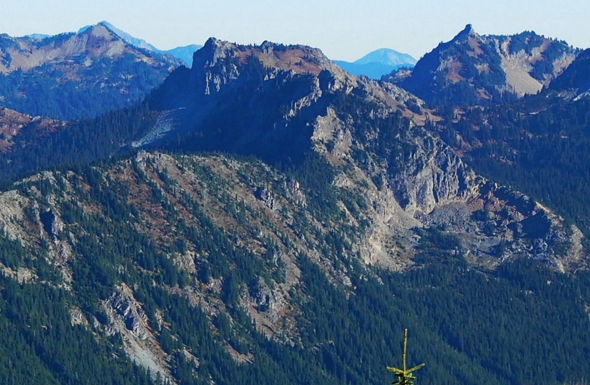 Peak 6290 "Deadwood Peak" seen from Sunrise Point in Mount Rainier National Park.